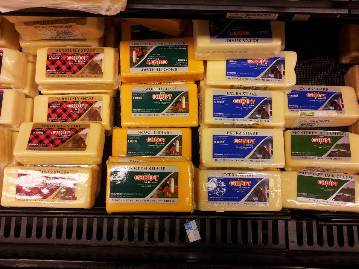 Cheese produced in New England that is free of animal rennet. This cheese is from Cabot Cremery in Cabot, VT.